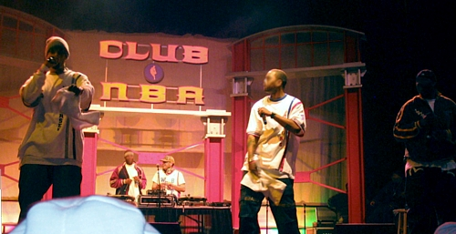 Rap group Def Squad members Redman (left) and Erick Sermon (right) perform with rapper Method Man (center) during the 2004 NBA All-Star Jam Session at the Los Angeles Convention Center. The photograph was taken with a Canon PowerShot A70 camera and edited using ArcSoft PhotoStudio 5.5